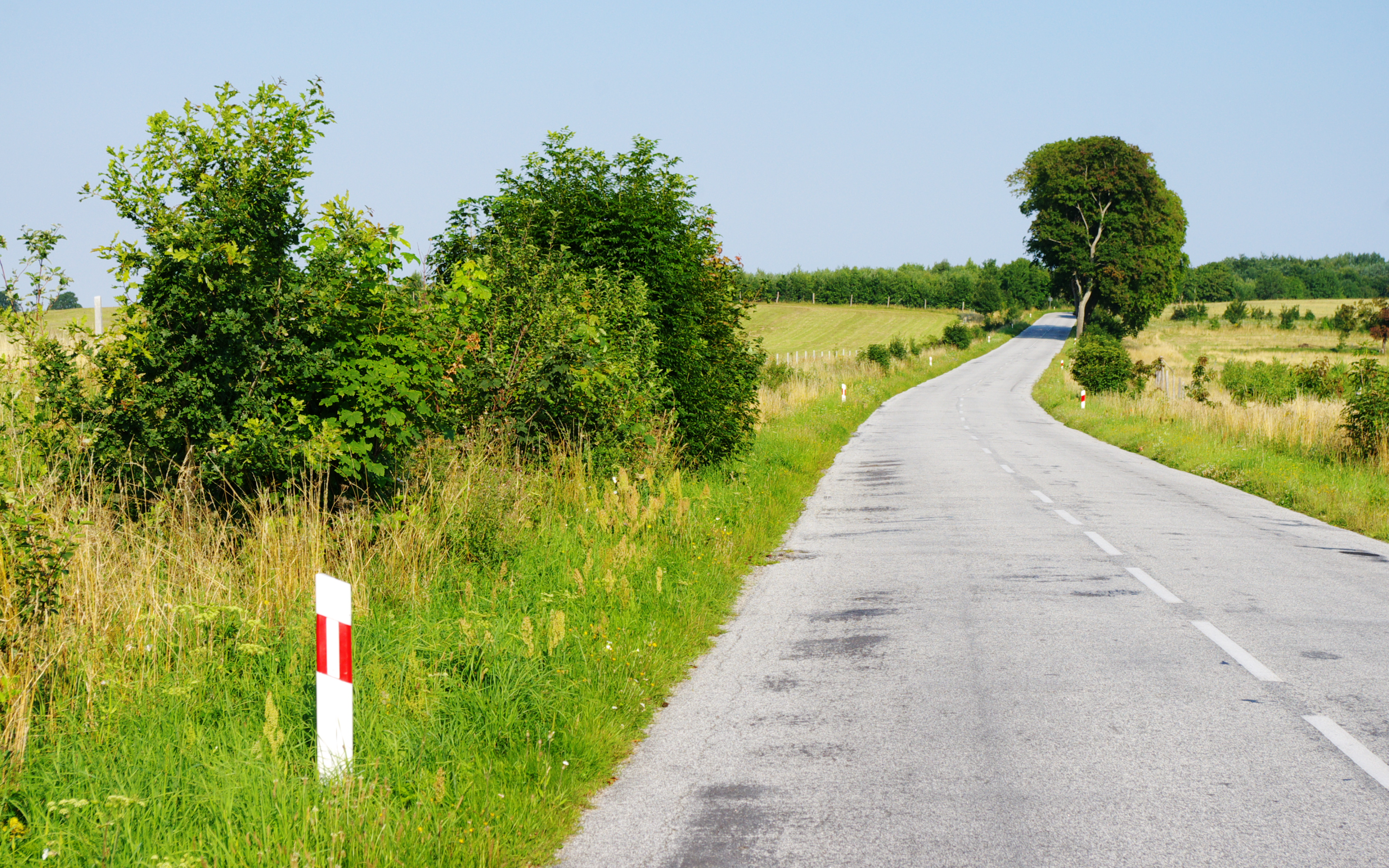 The voivodeship road no. 209 between Korzybie and Barcino in Pomeranian Voivodeship.